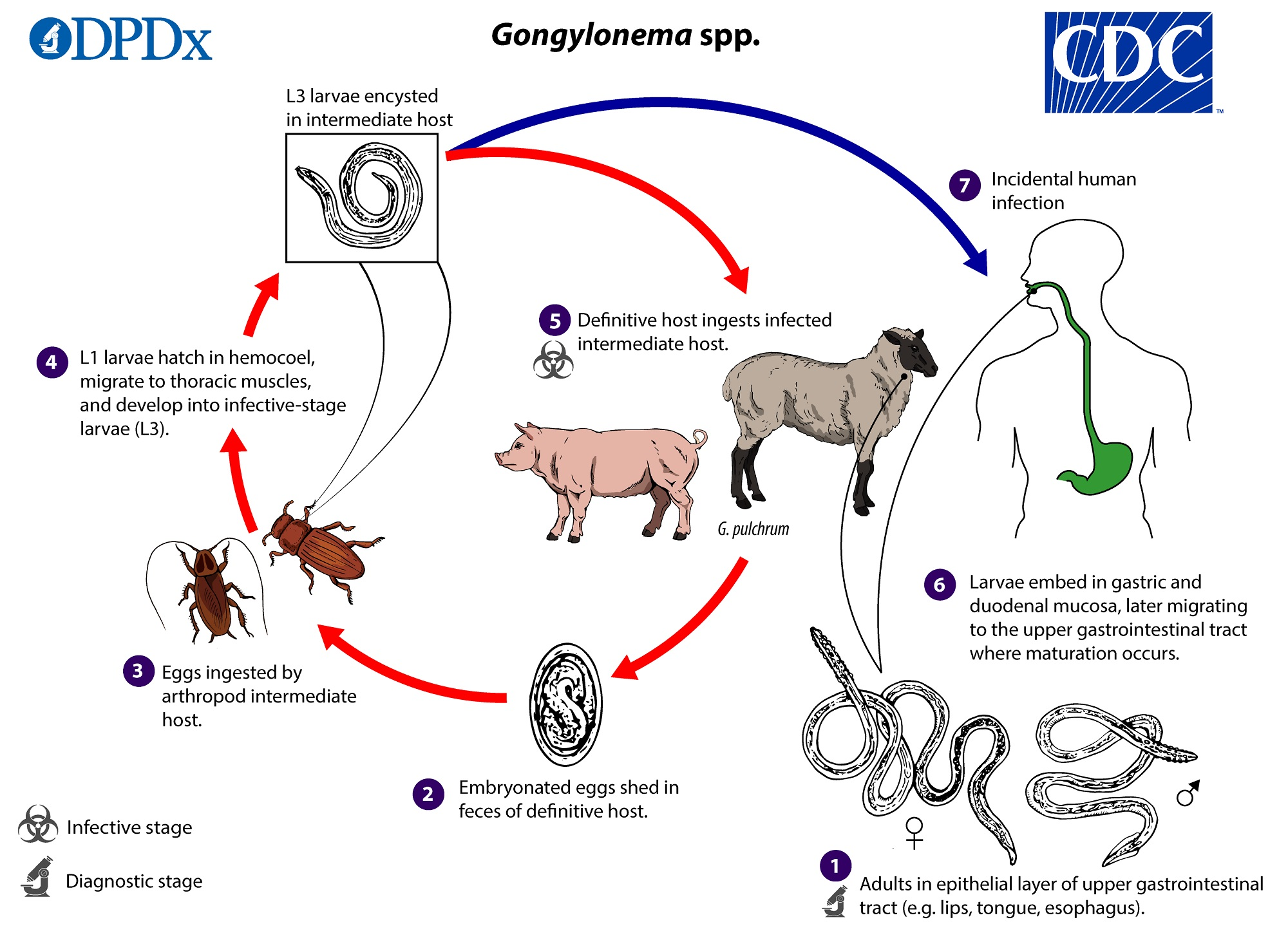 Gongylonema infection. Gongylonema pulchrum and Gongylonema spp.